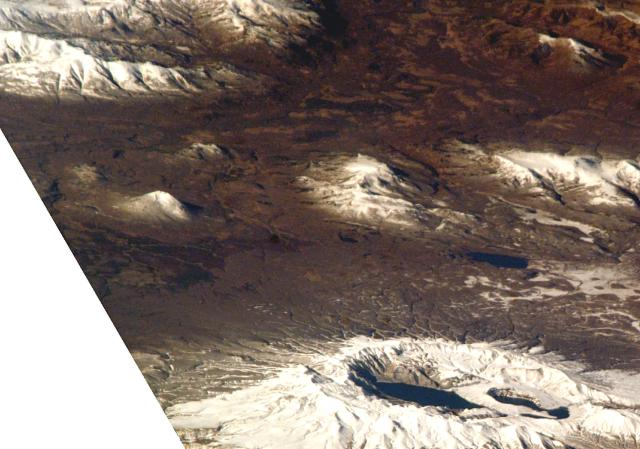 The small snow-covered cone near the left-center portion of this image is Belenkaya that lies SW of Ksudach volcano and NW of Kell volcano.